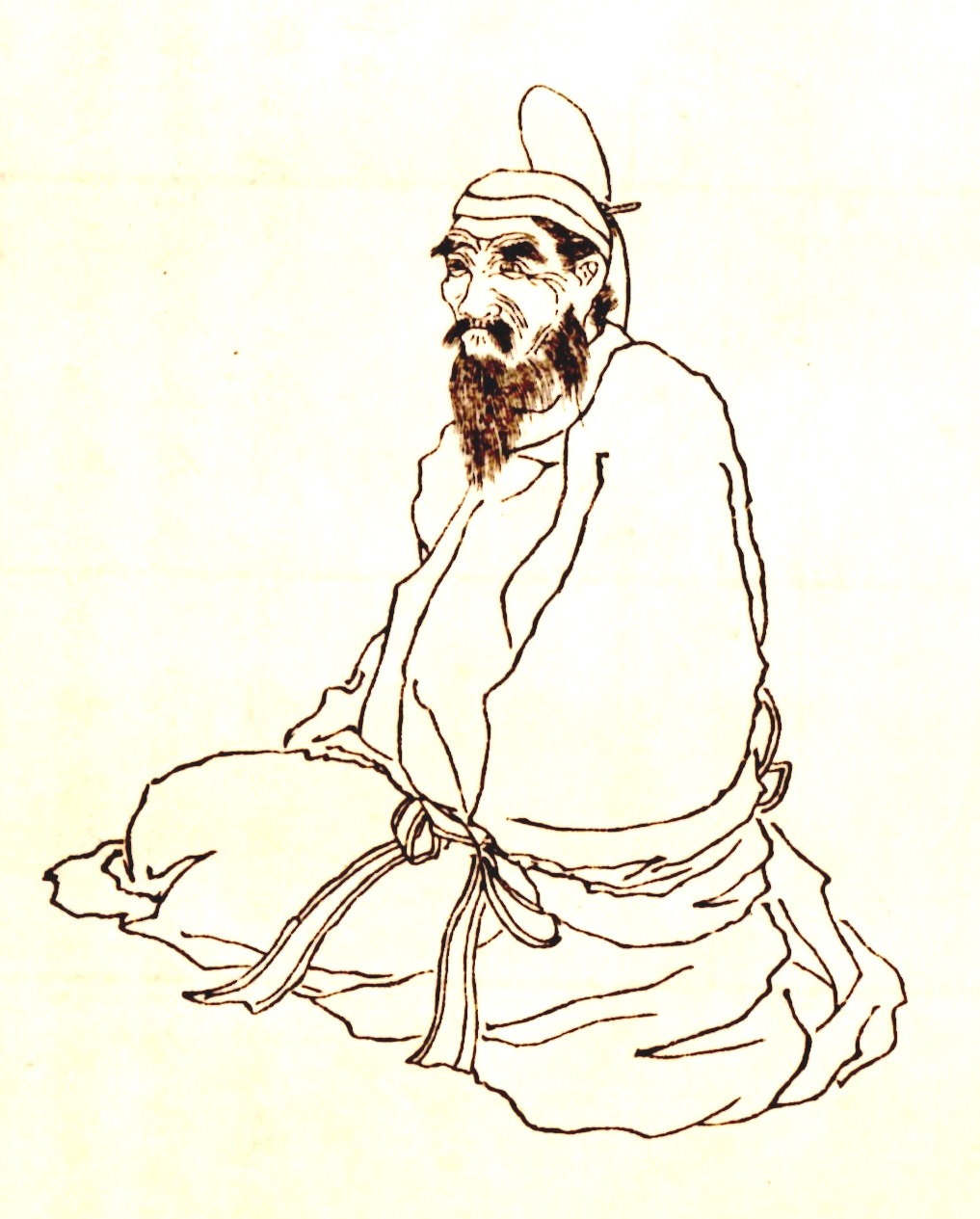 Yamato no Sukune was a Legal profession in Nara period. This picture was drawn by Kikuchi Yosai（菊池容斎） who was a painter in Japan.